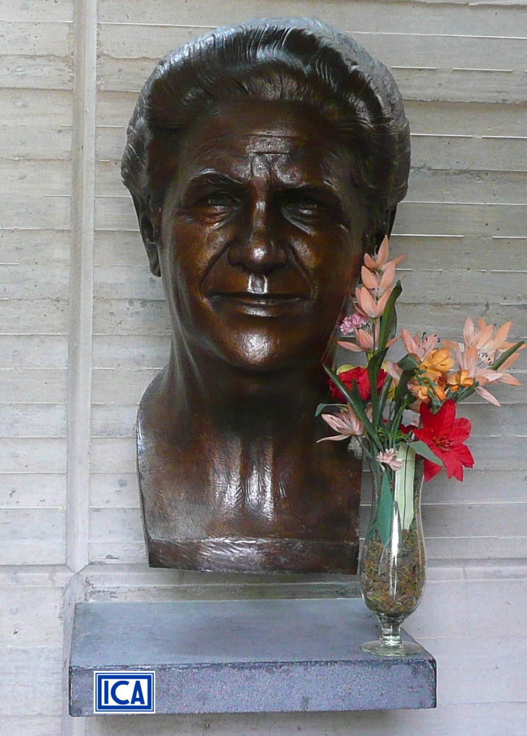 Bust of Mr. Bernardo Quintana in his tomb in the Rotunda of Illustrious Persons, México.